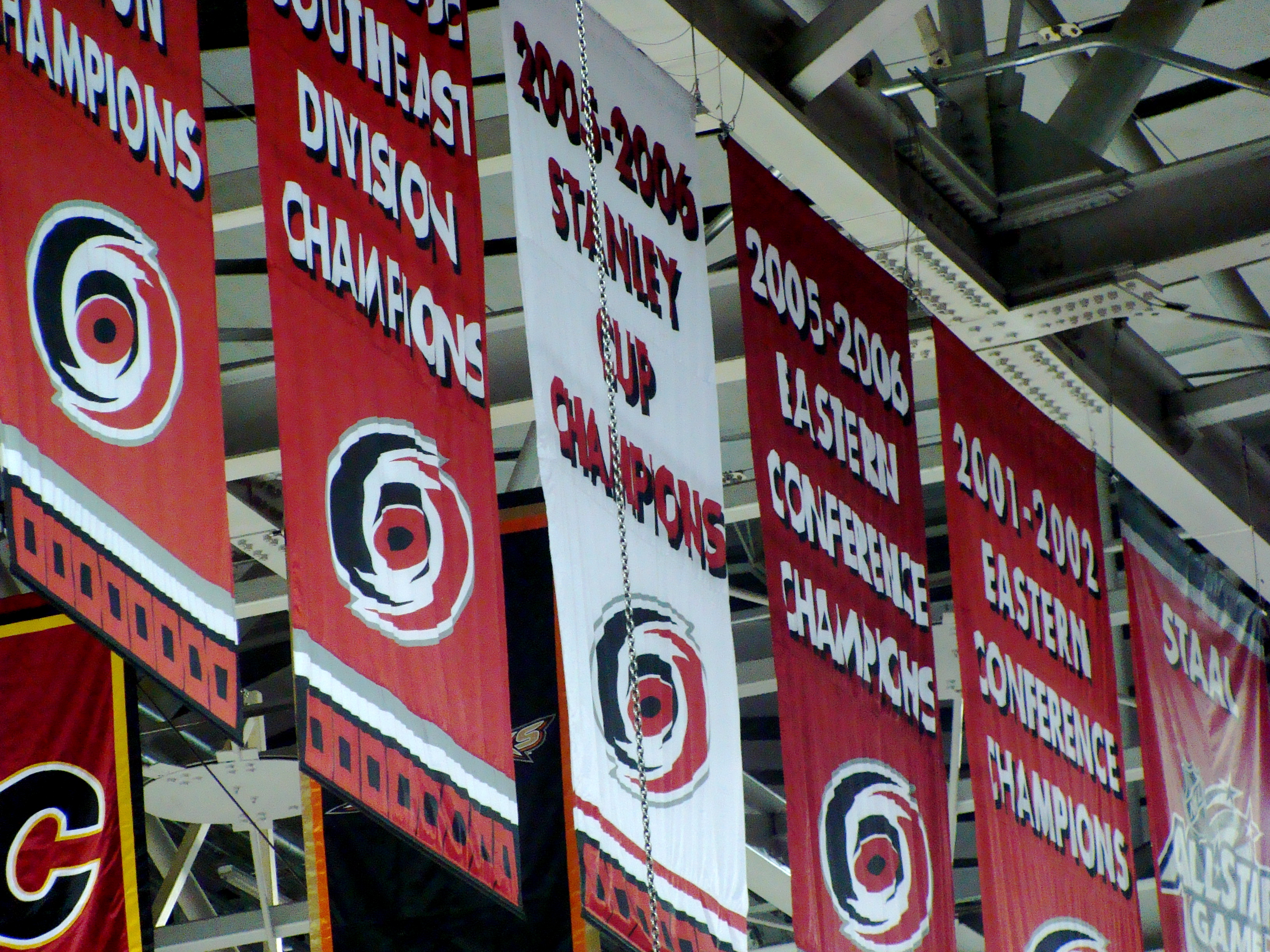 A look at some of the historical banners hanging in the rafters of the RBC Center. Taken on February 17, 2009 in Raleigh, North Carolina, USA.